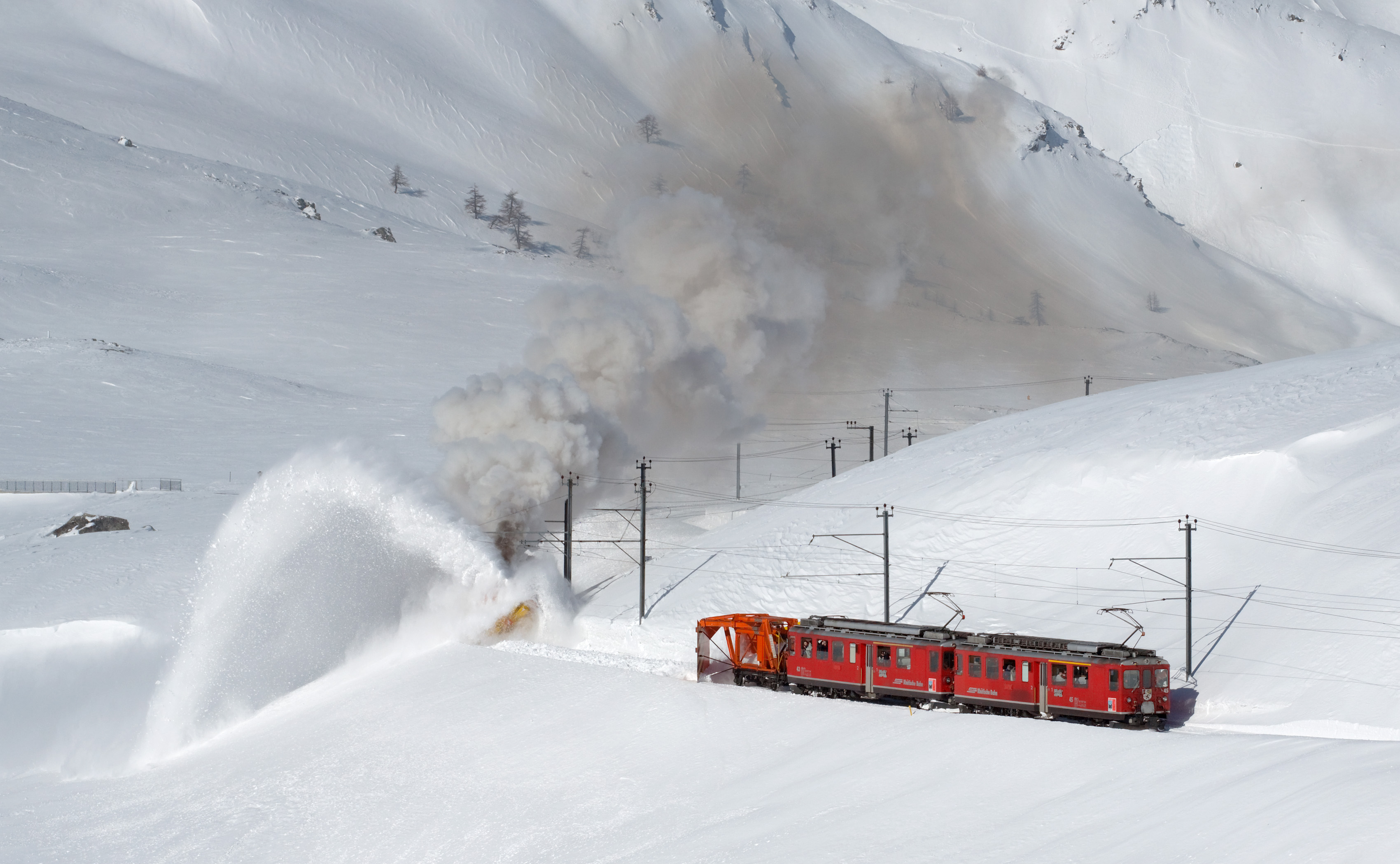 Rotary snowplow RhB Xrotd 9213 working on the Bernina Line at Lago Bianco, Switzerland. The two red multiple units in front are pulling a special car that scrapes snow off the snow walls to enlarge side clearance. This picture was taken during a special event for photographers, but operations like this were a common sight as late as the 1960s. Today, the Xrotd is rarely used, only when there is a real lot of snow to clear, and it's kept in running condition mainly for the pleasure of railfans.